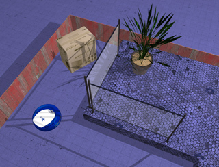 anyKode Marilou vacuum simulation